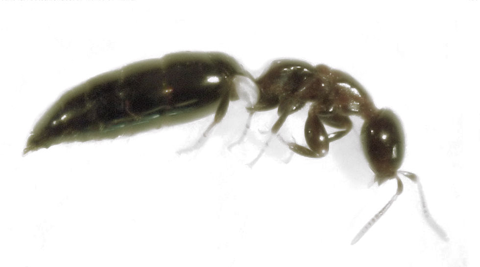 Sclerodermus niveifemur from New Zealand